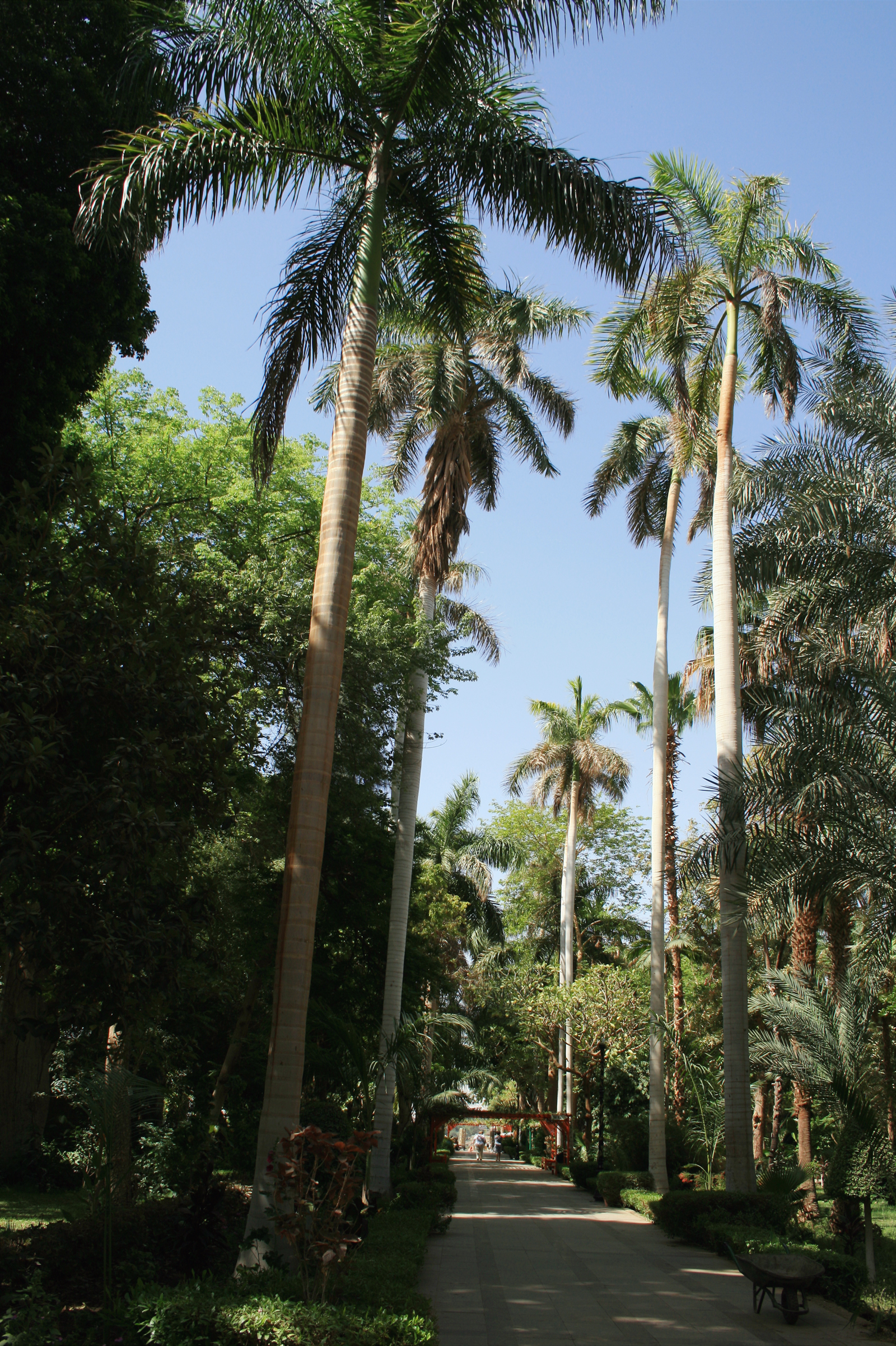 Palms - Roystonea regia. Aswan Botanical Garden - on Kitchener's Island in the Nile, Aswan - Egypt.